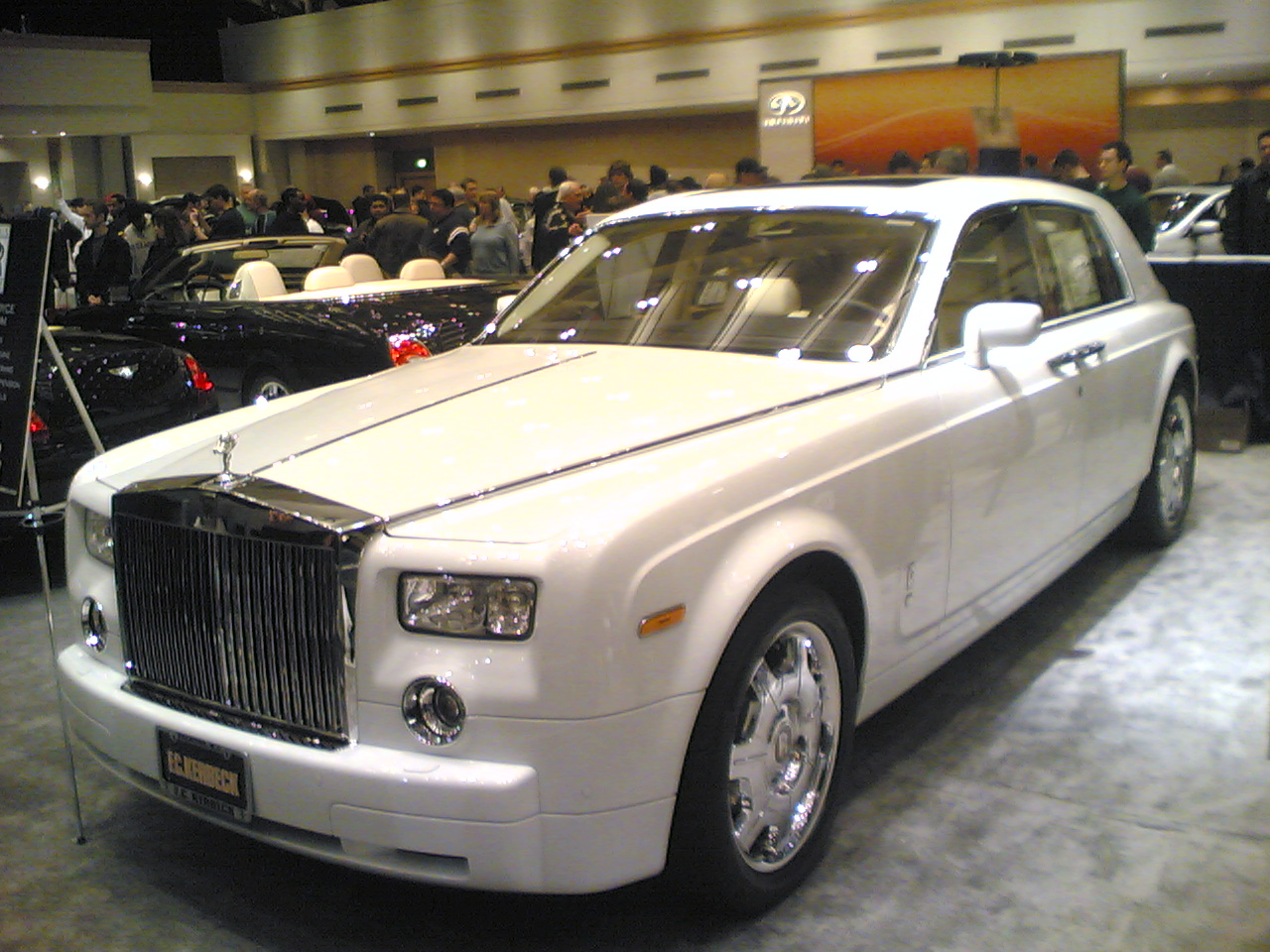 Taken at 1:49 PM on February 10, 2007 - cameraphone upload by ShoZu